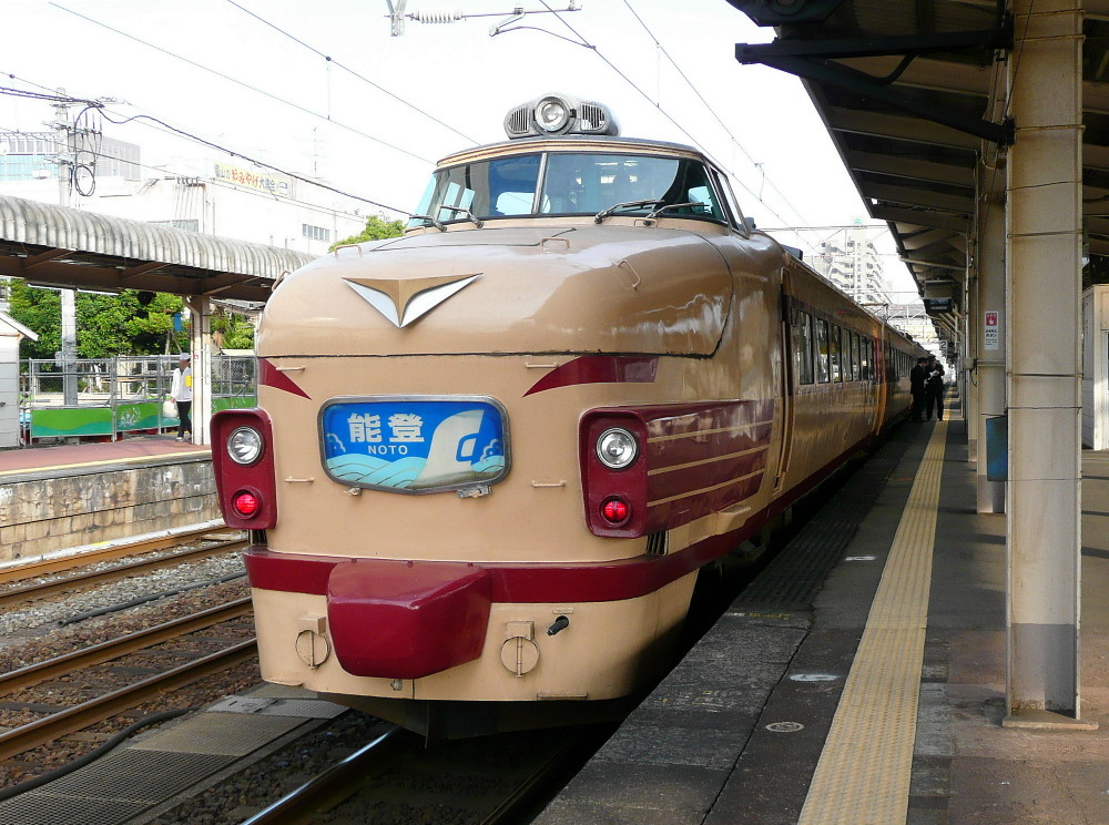 A JR West 489 series EMU on a Noto express service at Toyama Station